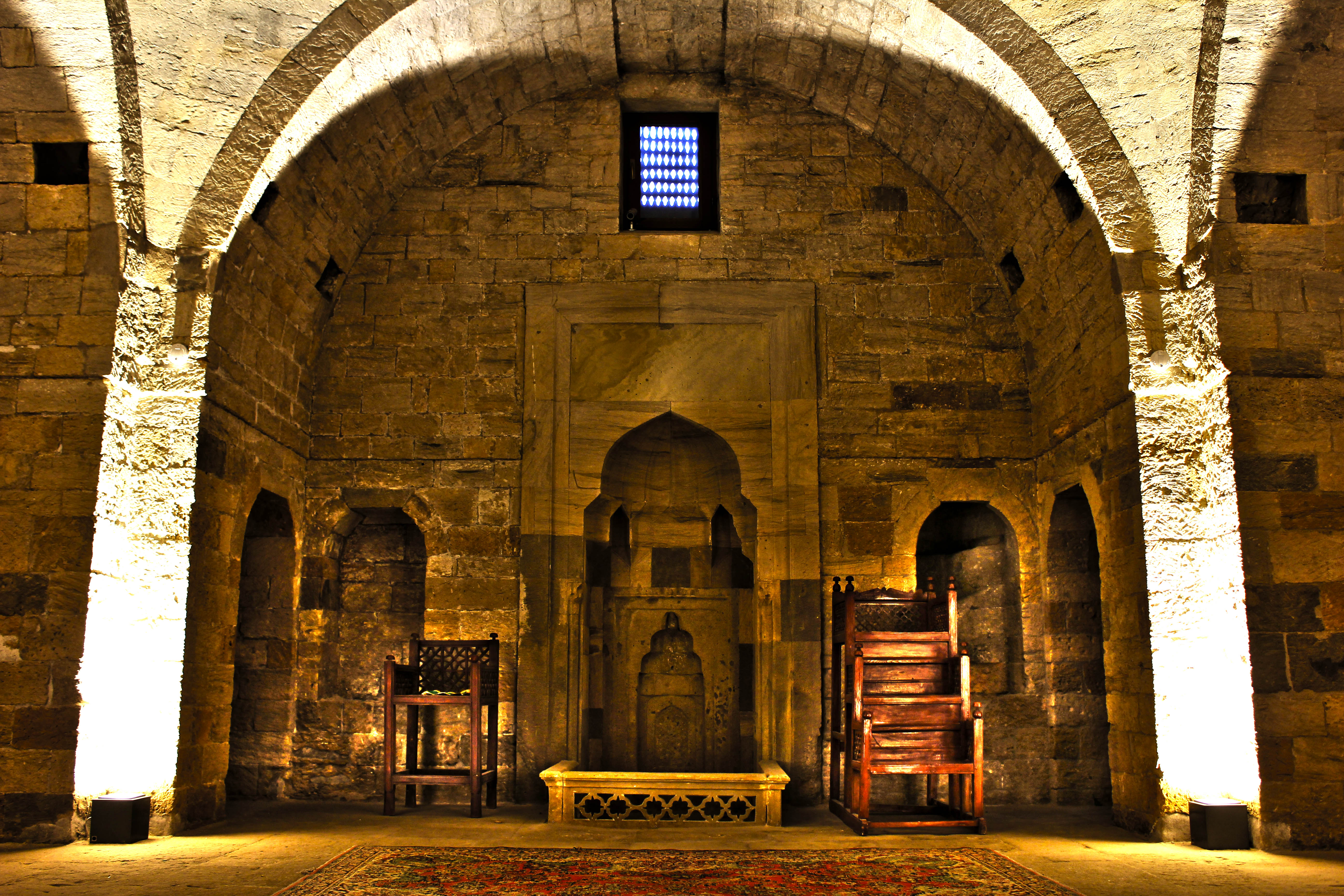 İnterier of Shah mosque in Baku, İcherisheher (Old part of city)